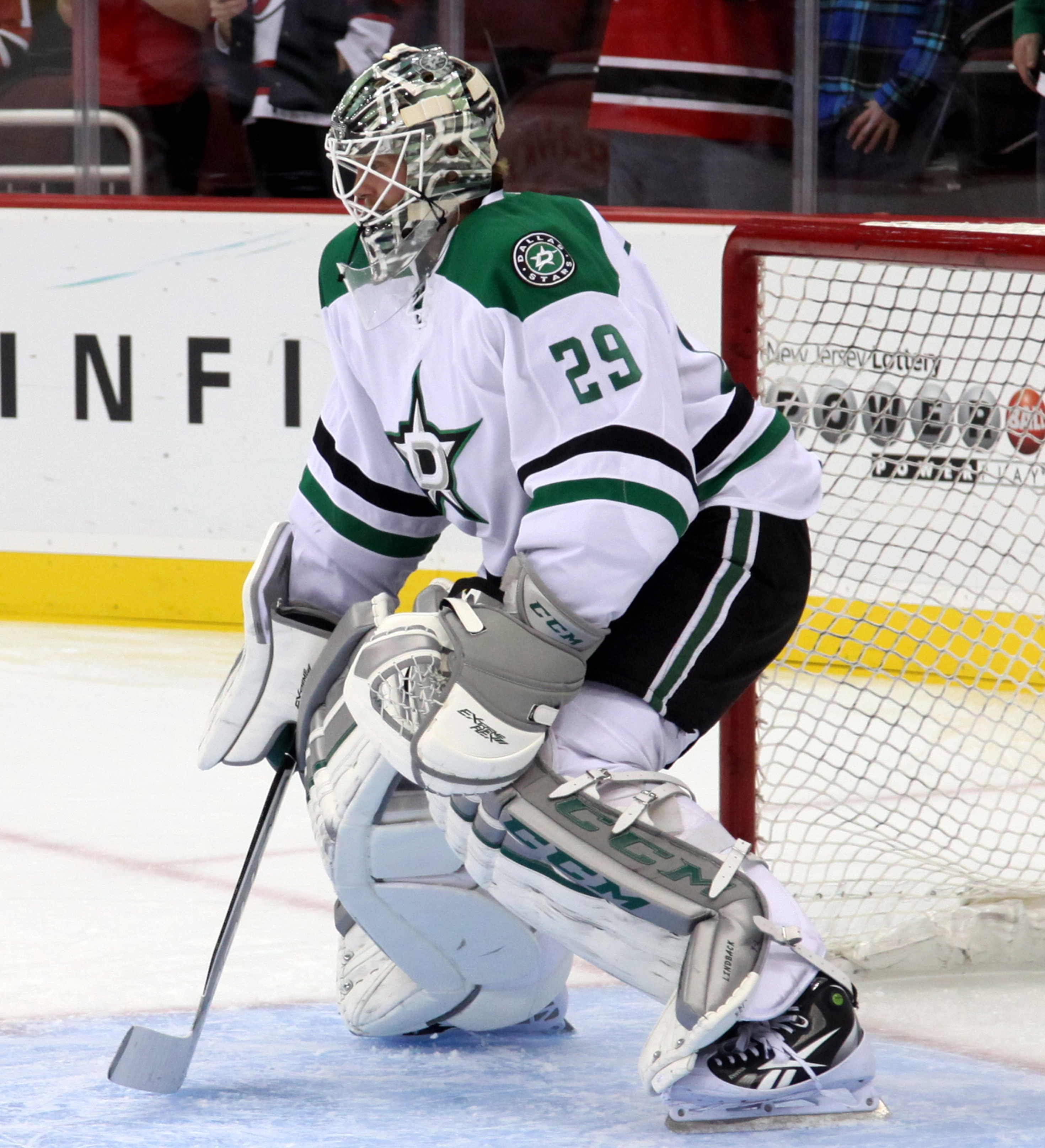 Lindback in October 2014.